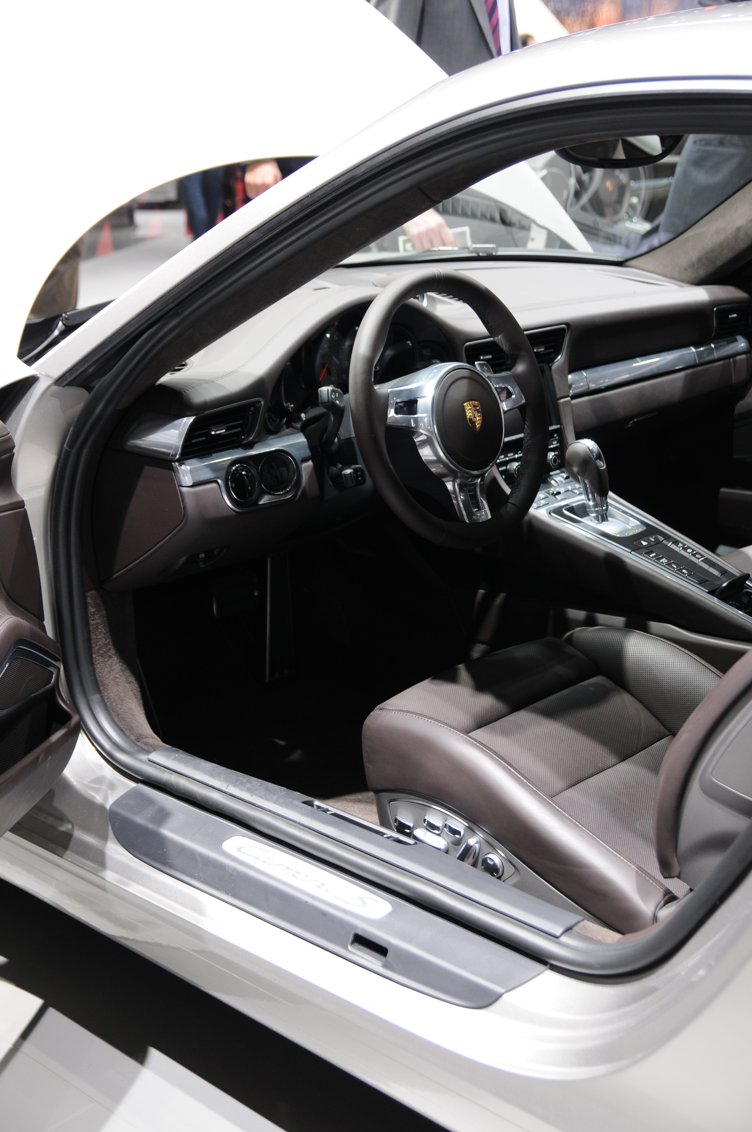 Geneva Motor Show 2012 (photos taken on the second press day)